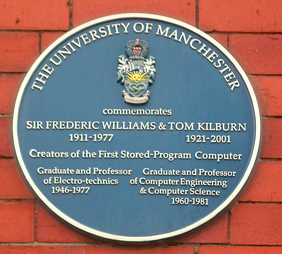 Blue historical location plaque representing Sir Fredric Williams and Tom Kilburn. Creators of the first Stored-Program Computer. This version cropped, perspective corrected, levels tweaked and small amount of sharpening used to offset the slight camera shake evident on the original